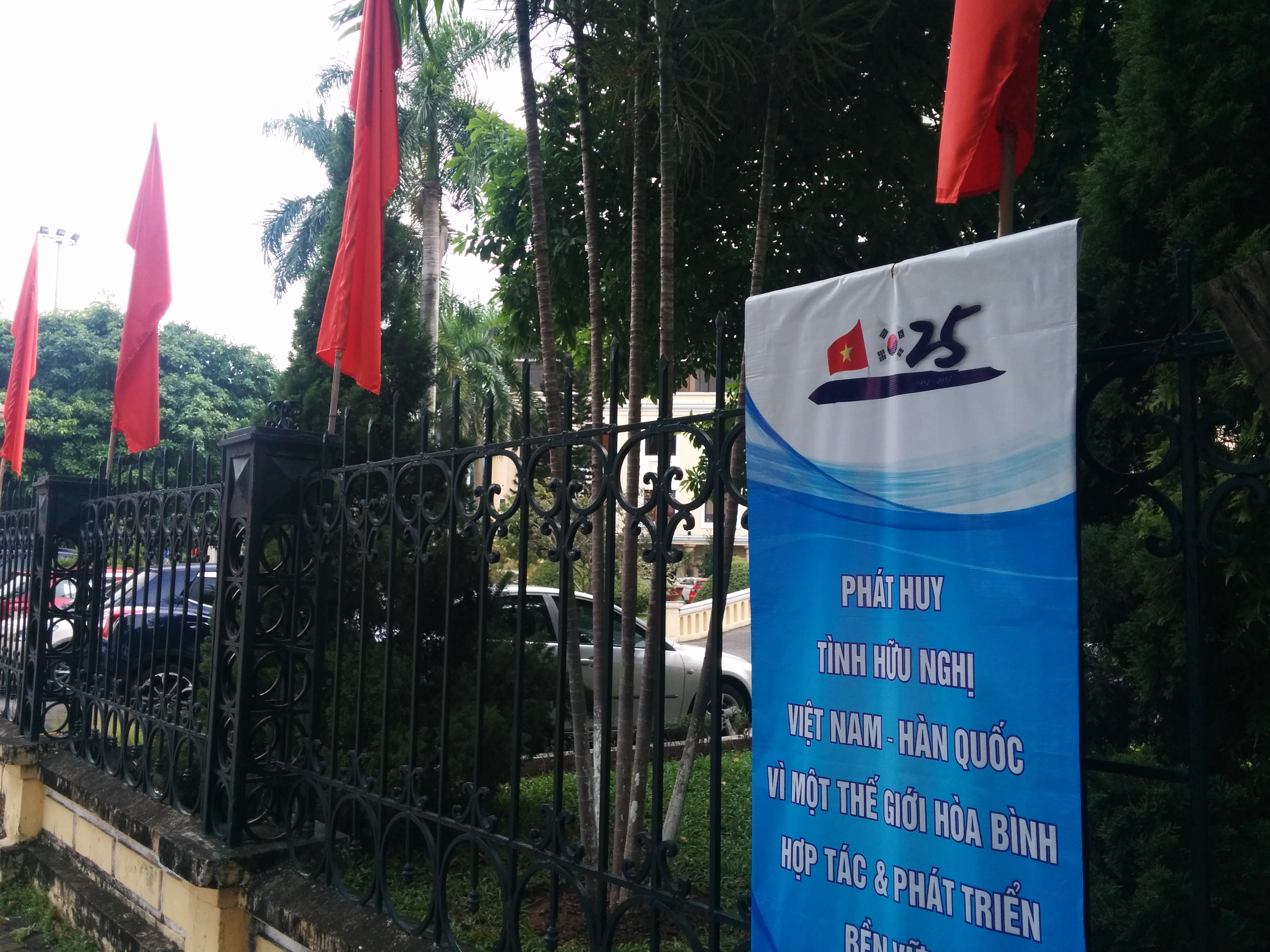 Near Ho Tay